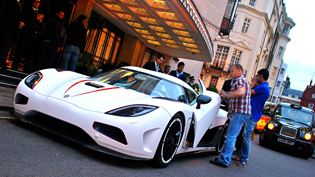 Koenigsegg Agera R pictured outside The Dorchester hotel in London